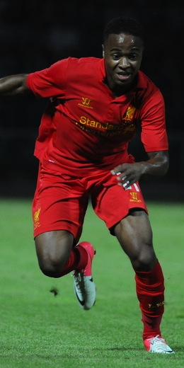 Raheem Sterling playing for Liverpool FC against FC Gomel in Europa League.